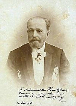 Marius Petipa, photo taken circa 1895 at the Maiinsky Theatre St. Petersburg, Russia by an unknown photographer. This photo comes from my own collection and was scanned by me.Mrlopez2681 16:24, 7 August 2006 (UTC)